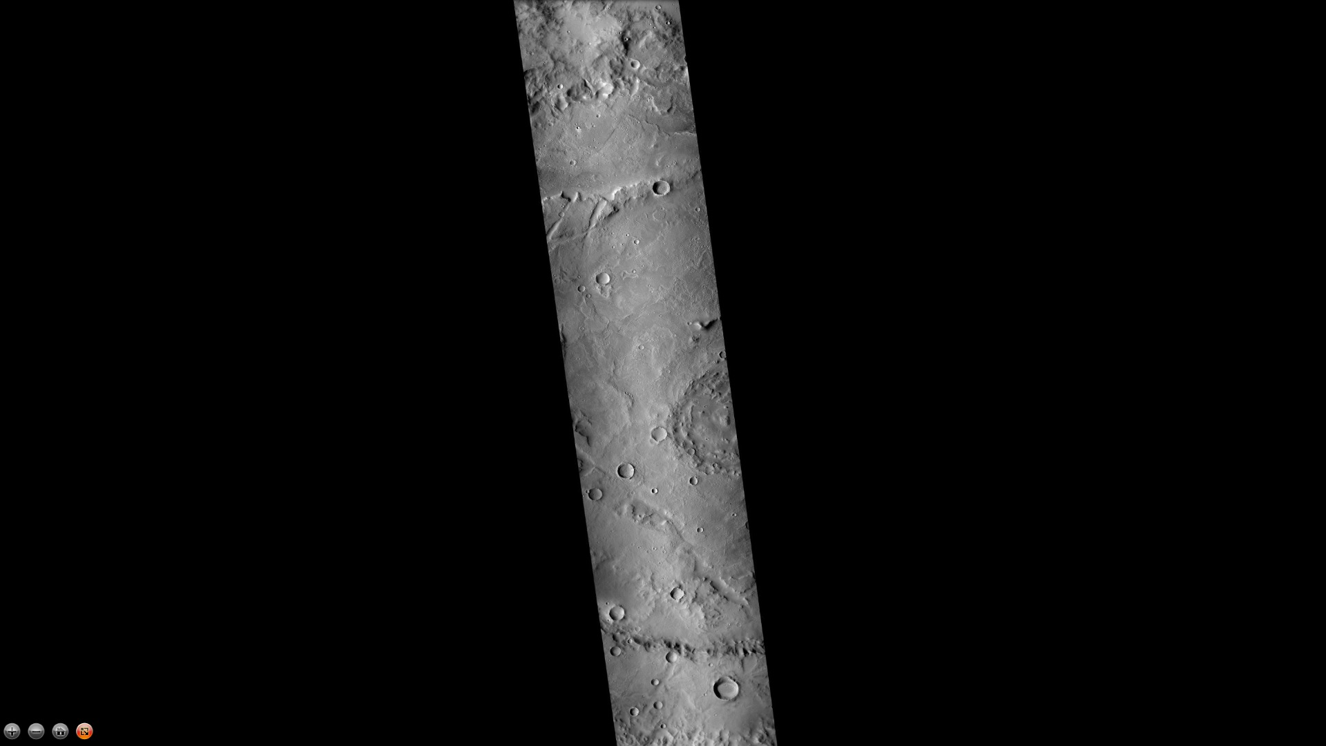 Maggini Crater, as seen by CTX